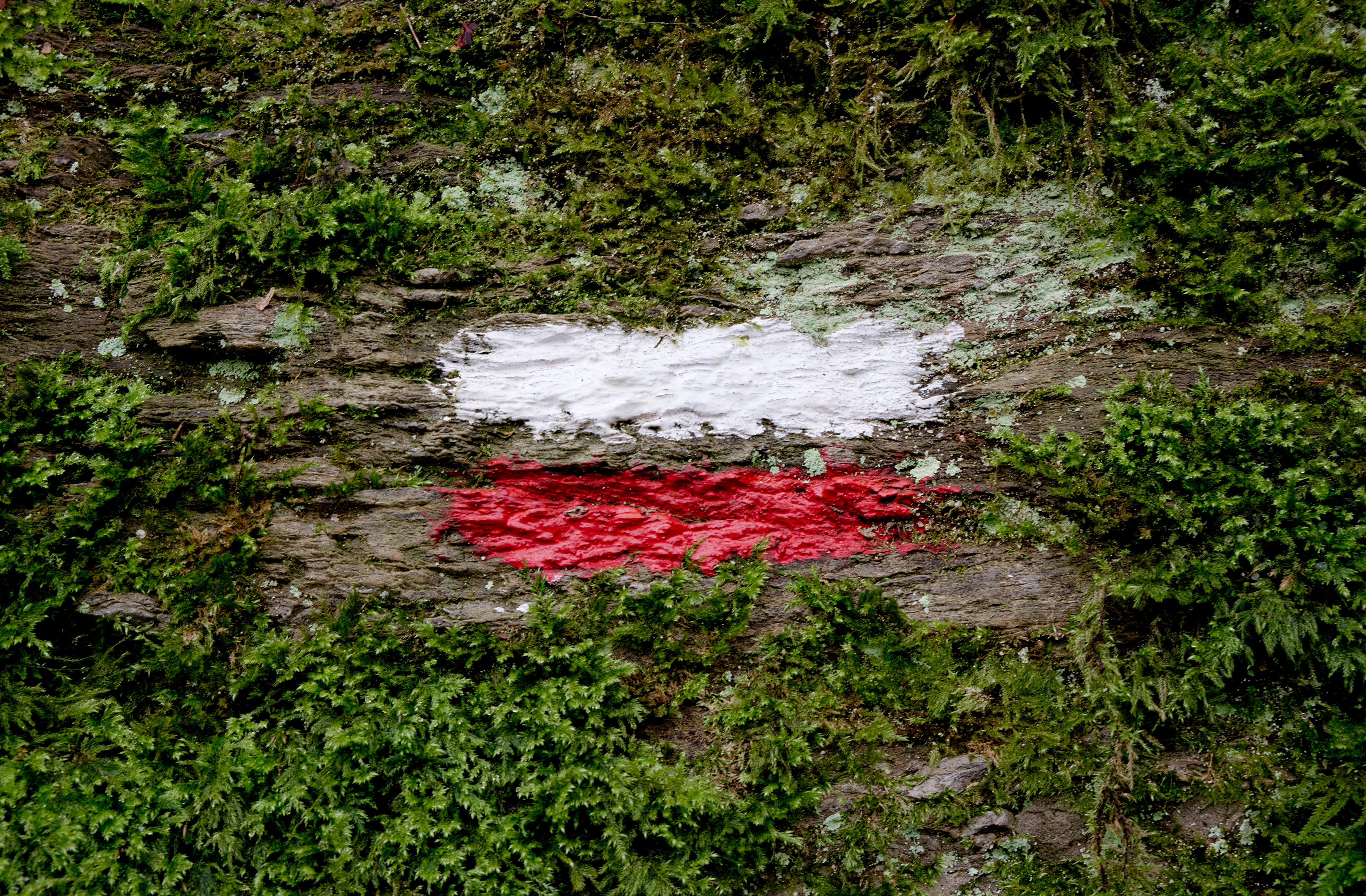 GR footpath label painted along the GR 16 in Vresse-sur-Semois